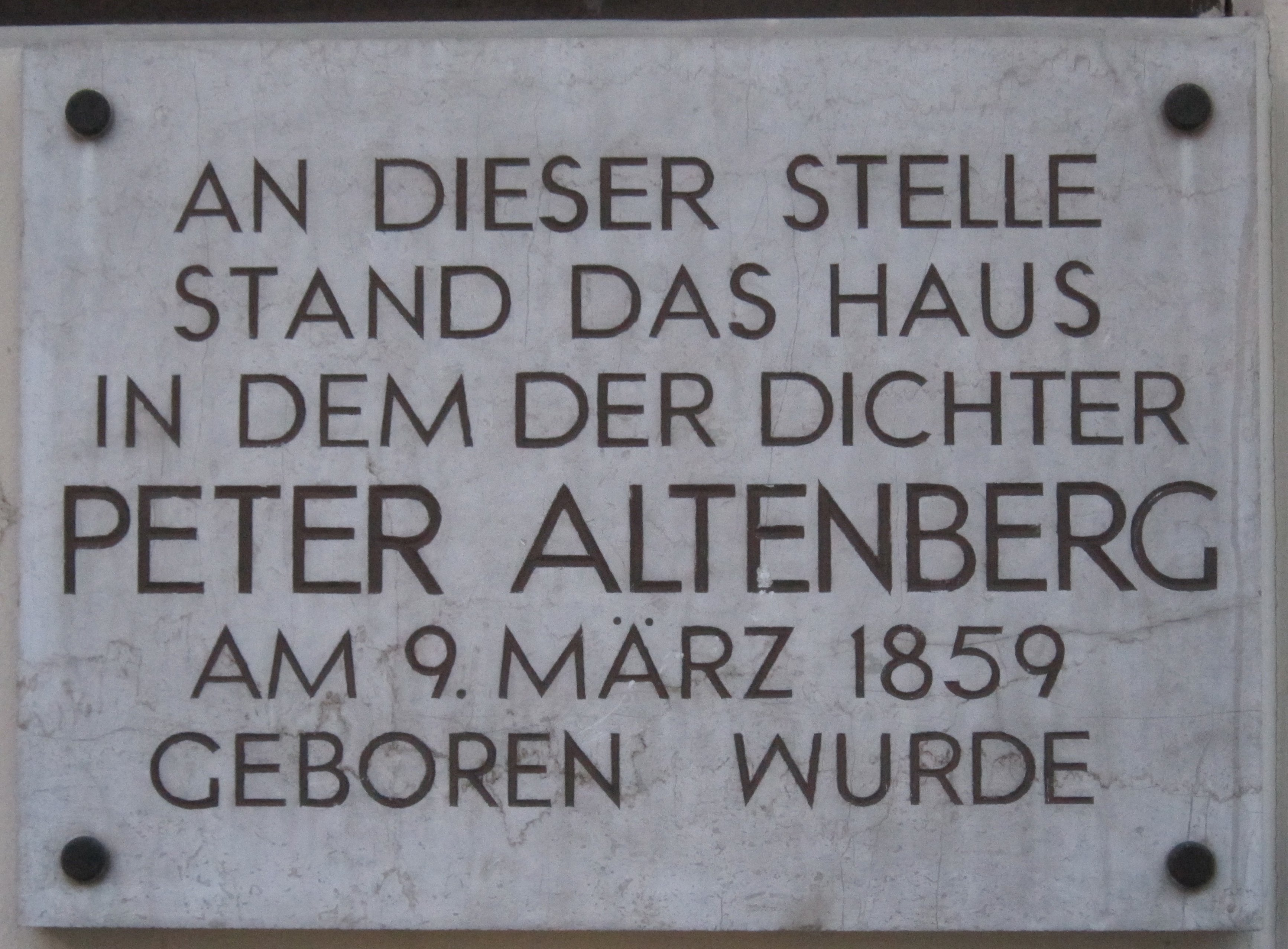 Plaque on the house where once stood Peter Altenberg´s birthplace.